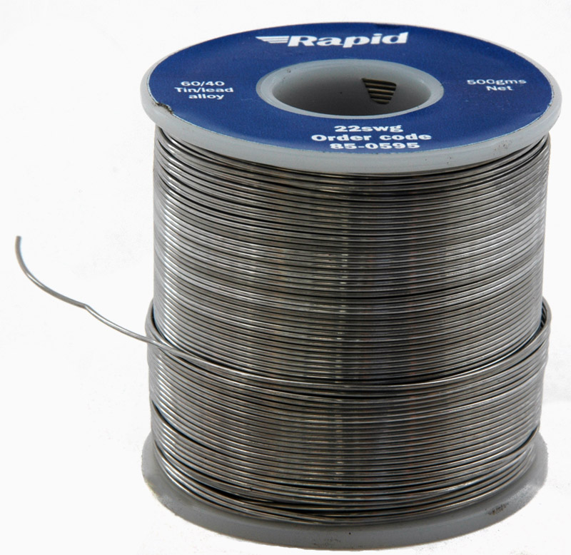 A 500g reel of 22swg 60/40 Solder